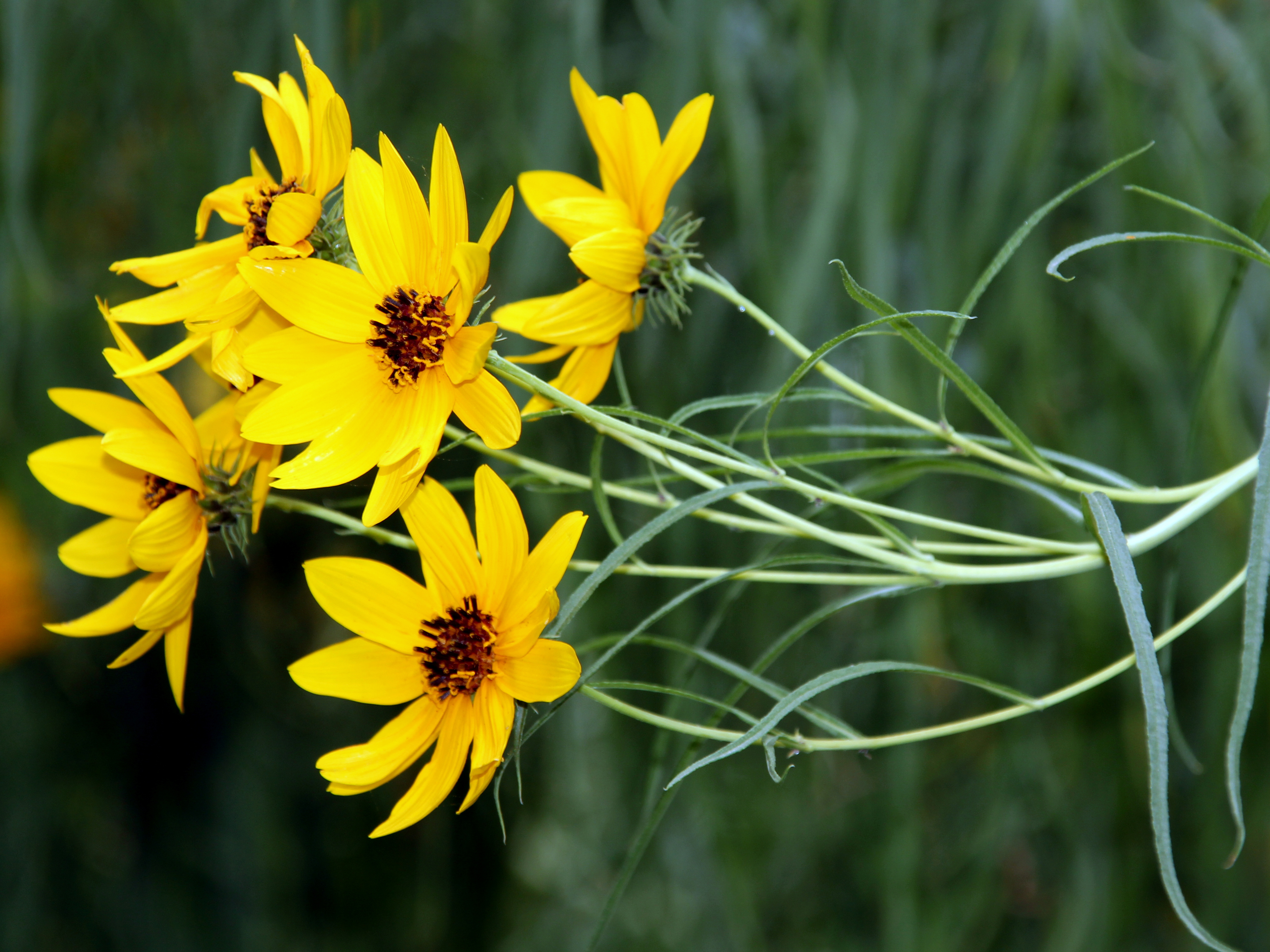 Helianthus salicifolius - Willow-leaved sunflower